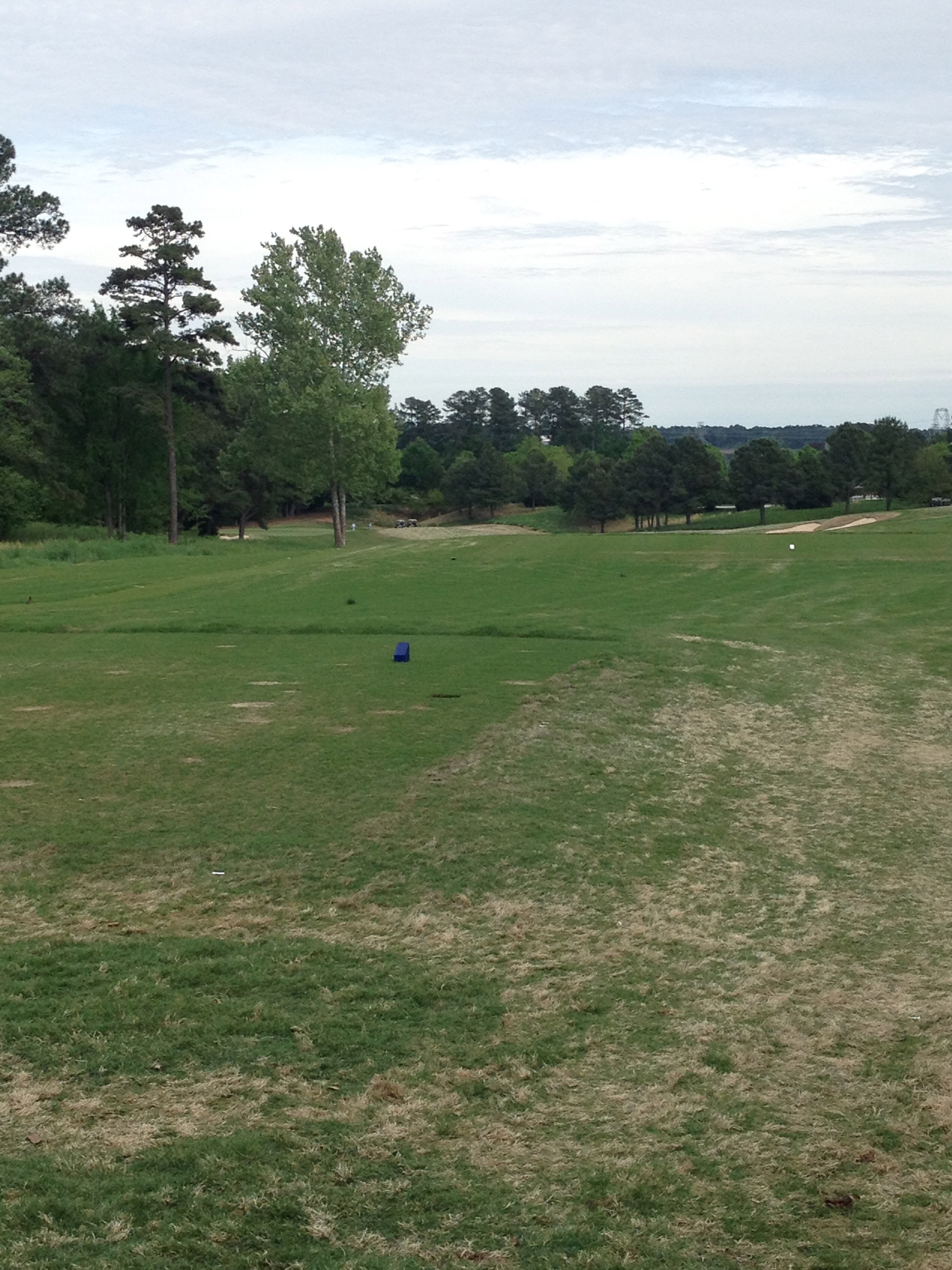 Opening Hole at TPC Wakefield Plantation